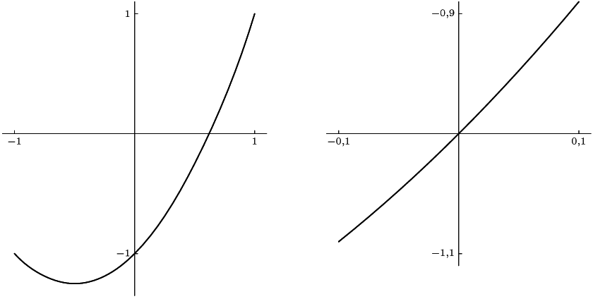 graph of differentiable function